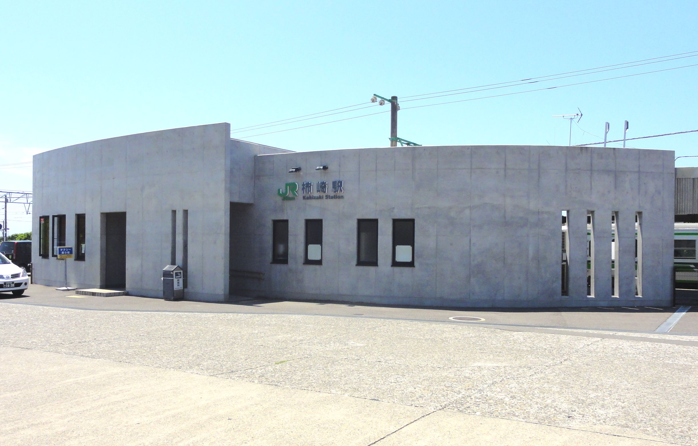 Kakizaki Station on the Shinetsu Main Line in Niigata Prefecture, Japan